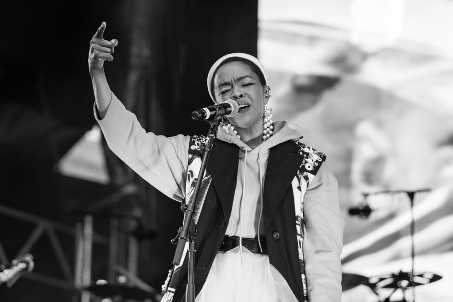 Lauryn Hill at Kirketorget. The concert was part of Kongsberg Jazzfestival and took place on 04. July 2019 in Kongsberg. Lineup:Lauryn Hill (vocal)Igmar Thomas (trumpet and bandleader)George McCurdy (drums)Jay Rosado (bass guitar)Matthias Loescher (guitar)Michel Ferre (keyboard)DJ Reborn (disc jockey)Candice Anderson (backing vocal)Tara Harrison (backing vocal)Tanikka Myers (backing vocal)